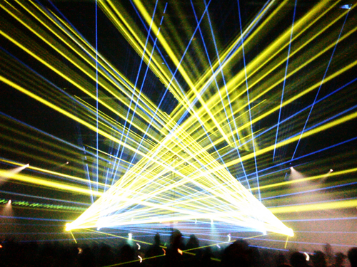 Auto Tagged By Tagnics